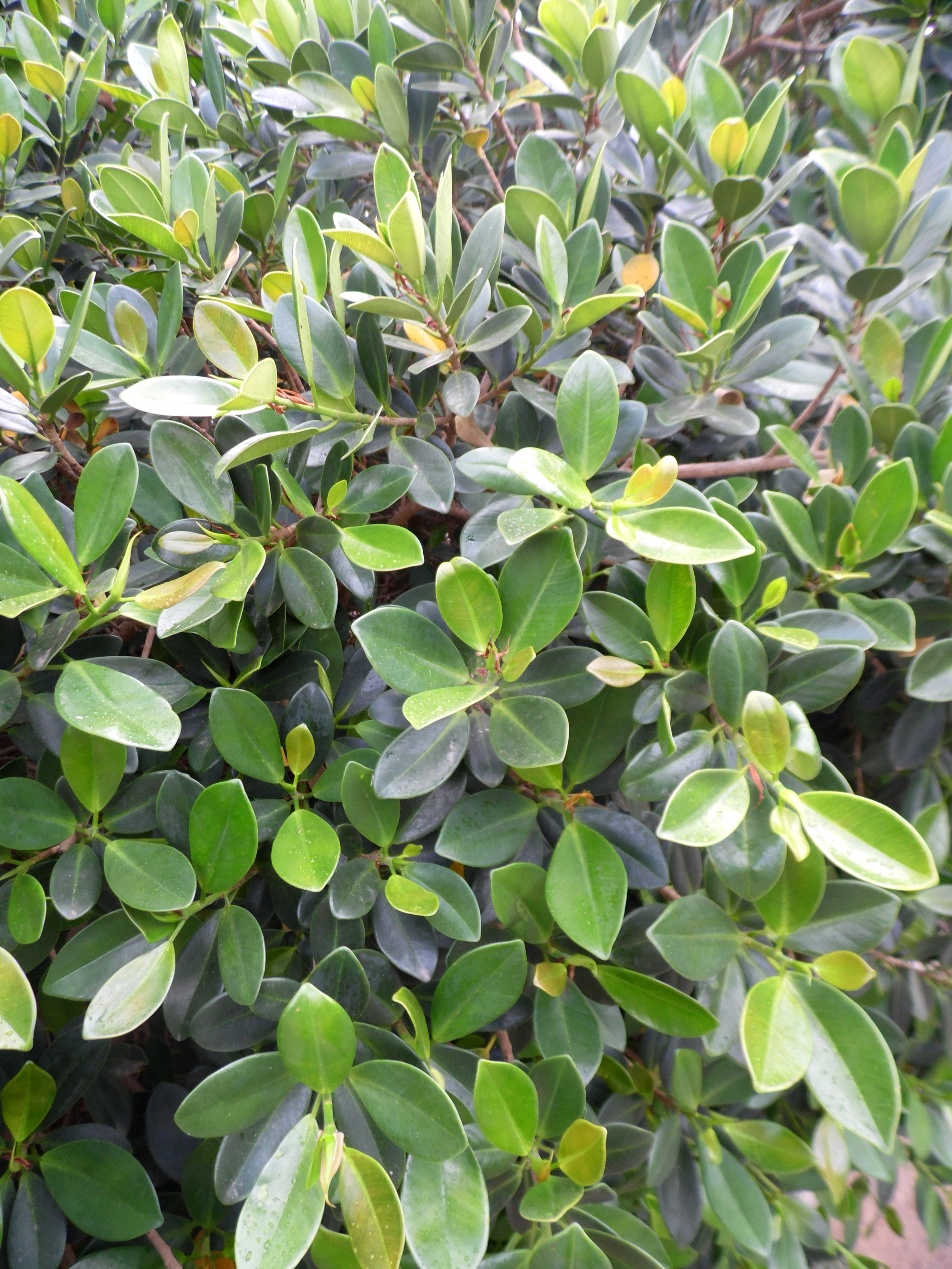 Ficus americana in Parque Botánico de Maspalomas (Gran Canaria)